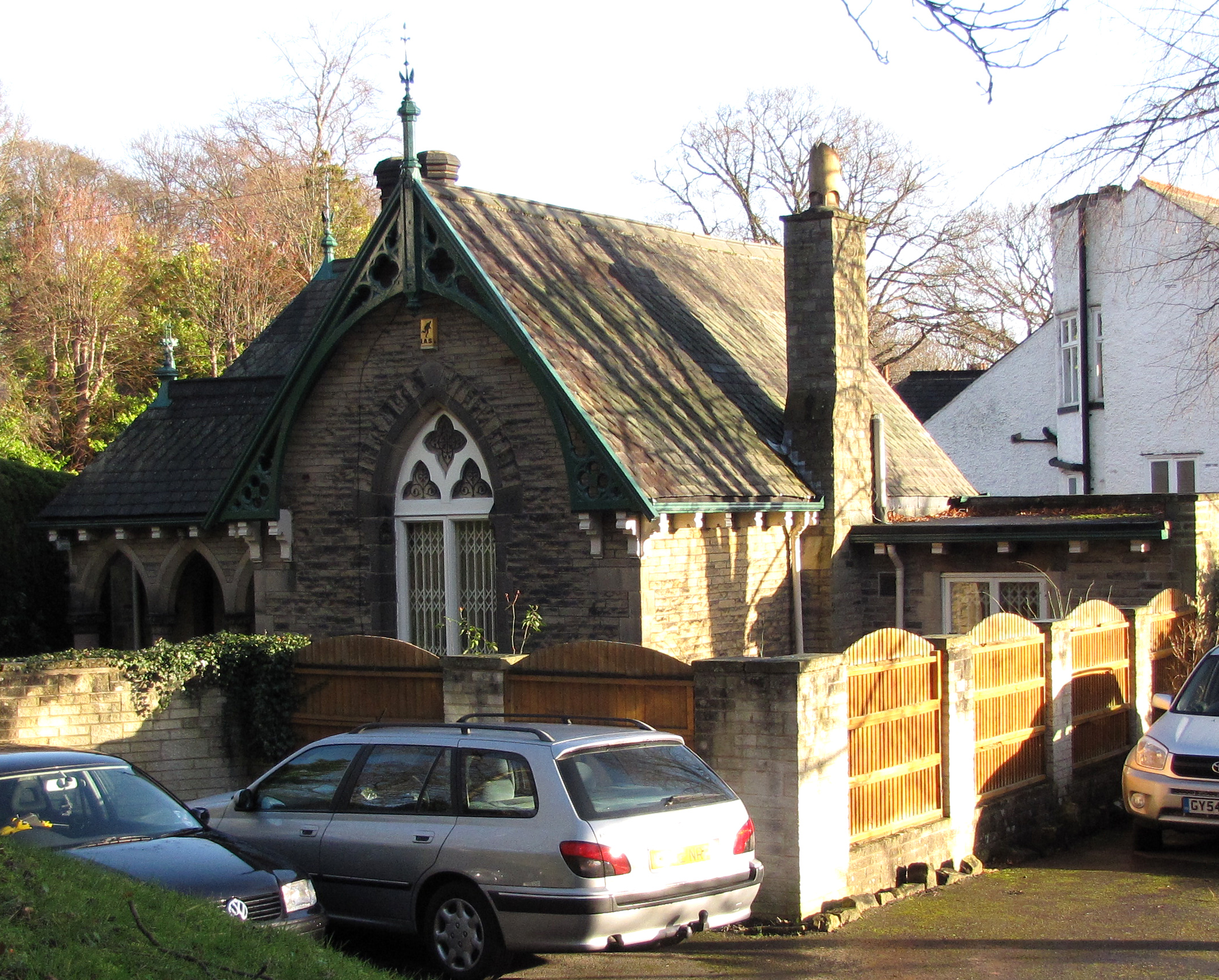 The Lodge to Riverdale House in the Ranmoor area of Sheffield, England. This Grade II Listed Building dates from around 1860.